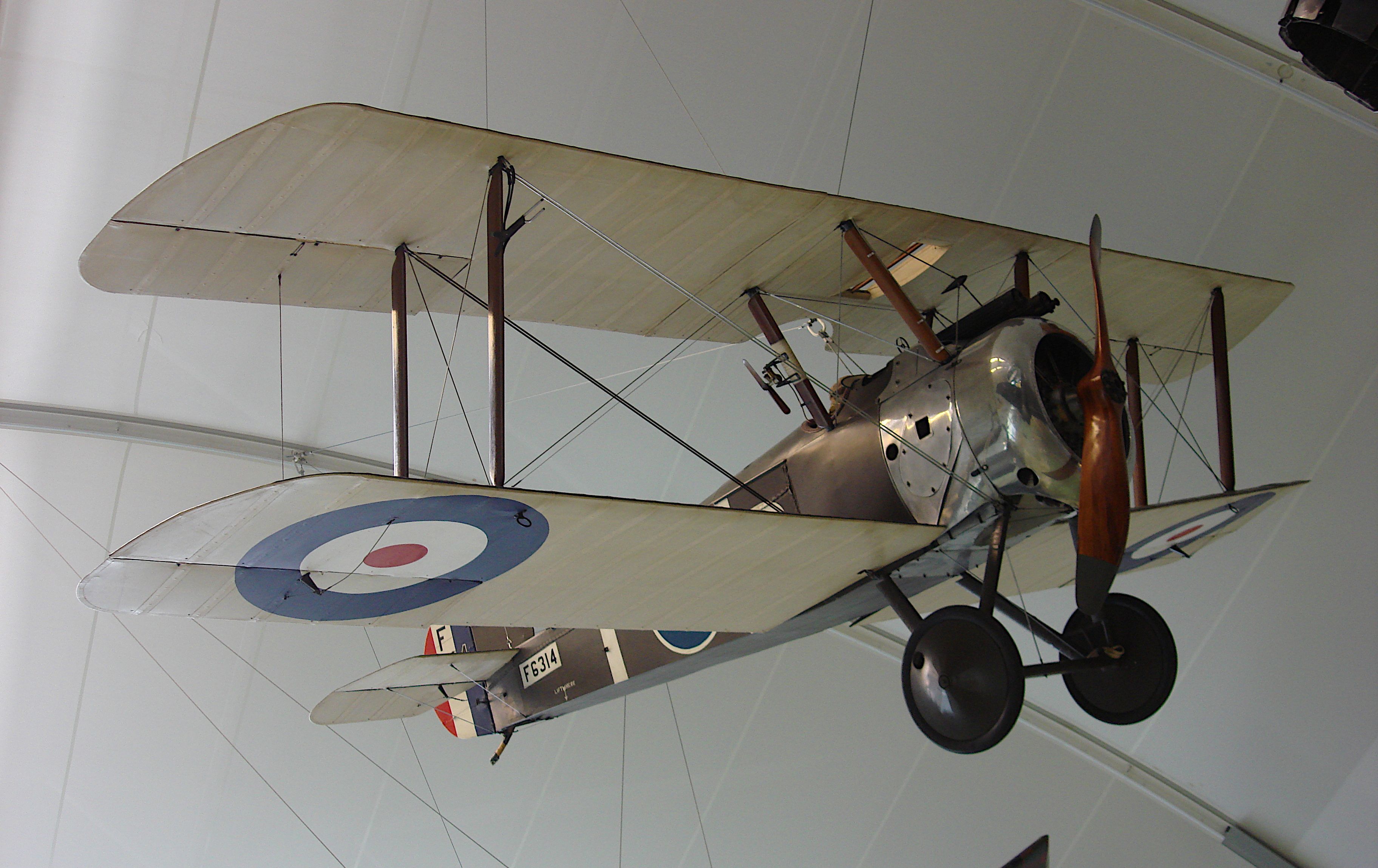 Sopwith Camel at the RAF Museum, London. See also : File:Sopwith Camel 2.jpg view from front left